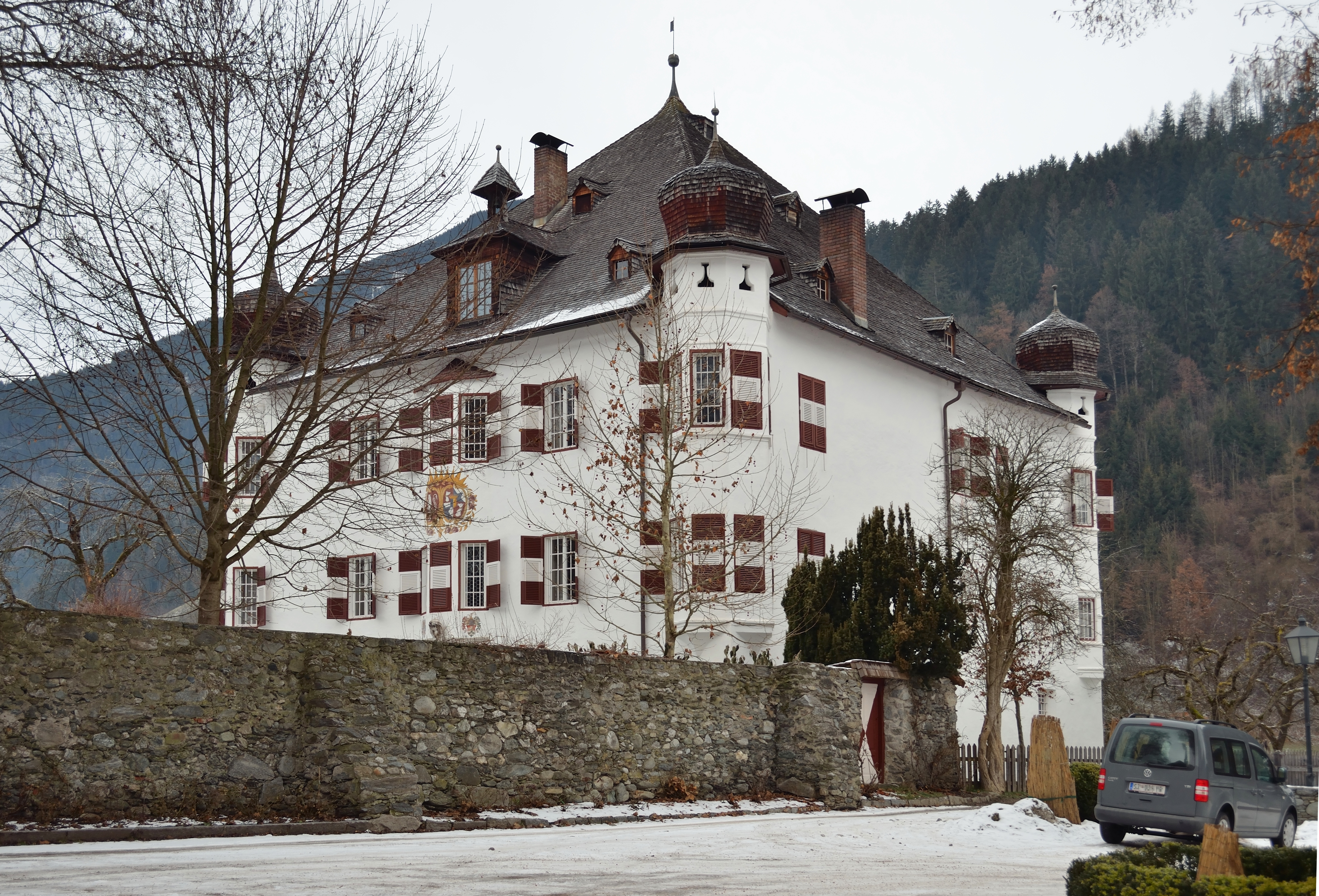 Schloss Stumm, a palace in Stumm im Zillertal, Tyrol, is protected as a cultural heritage monument.